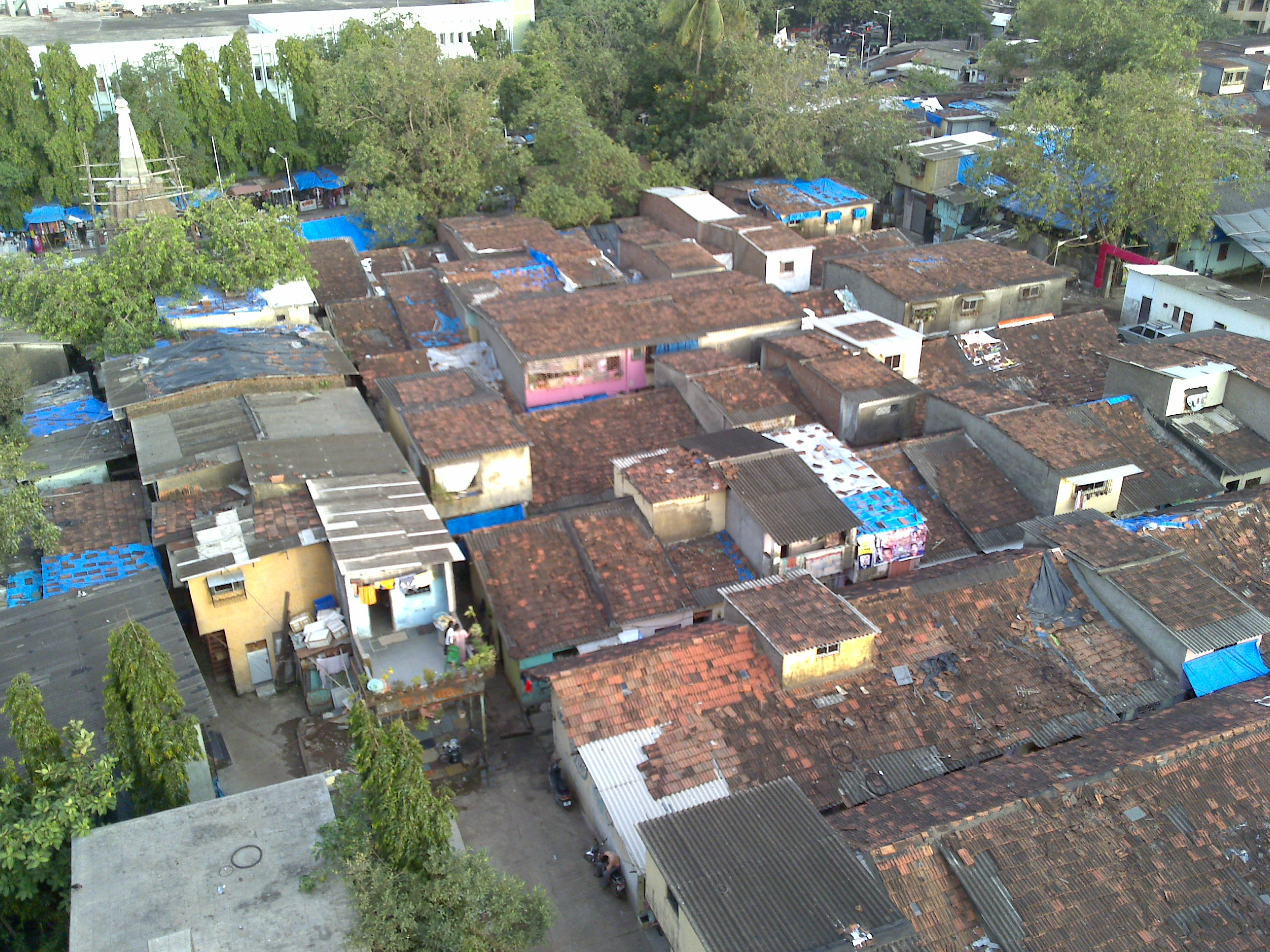 Inside the Dharavi slum in Mumbai, India Close up skyview of Dharavi slum. Some slum dwellings have little balconies, with flower pots. Residents have maintained trees between homes. Dharavi is surrounded by office buildings and factories - such as one at the top of the photo.